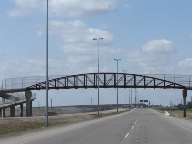 Pedestrian Overpass over 22nd Street (Saskatchewan Highway 7/14 Consruction Site Bethlehem Catholic High School to the east of the construction site; Tommy Douglas High Collegiate to the west of the construction site; Shaw Centre public area in the centre . Blairmore Suburban Centre, Blairmore SDA, Saskatoon, Saskatchewan, Canada